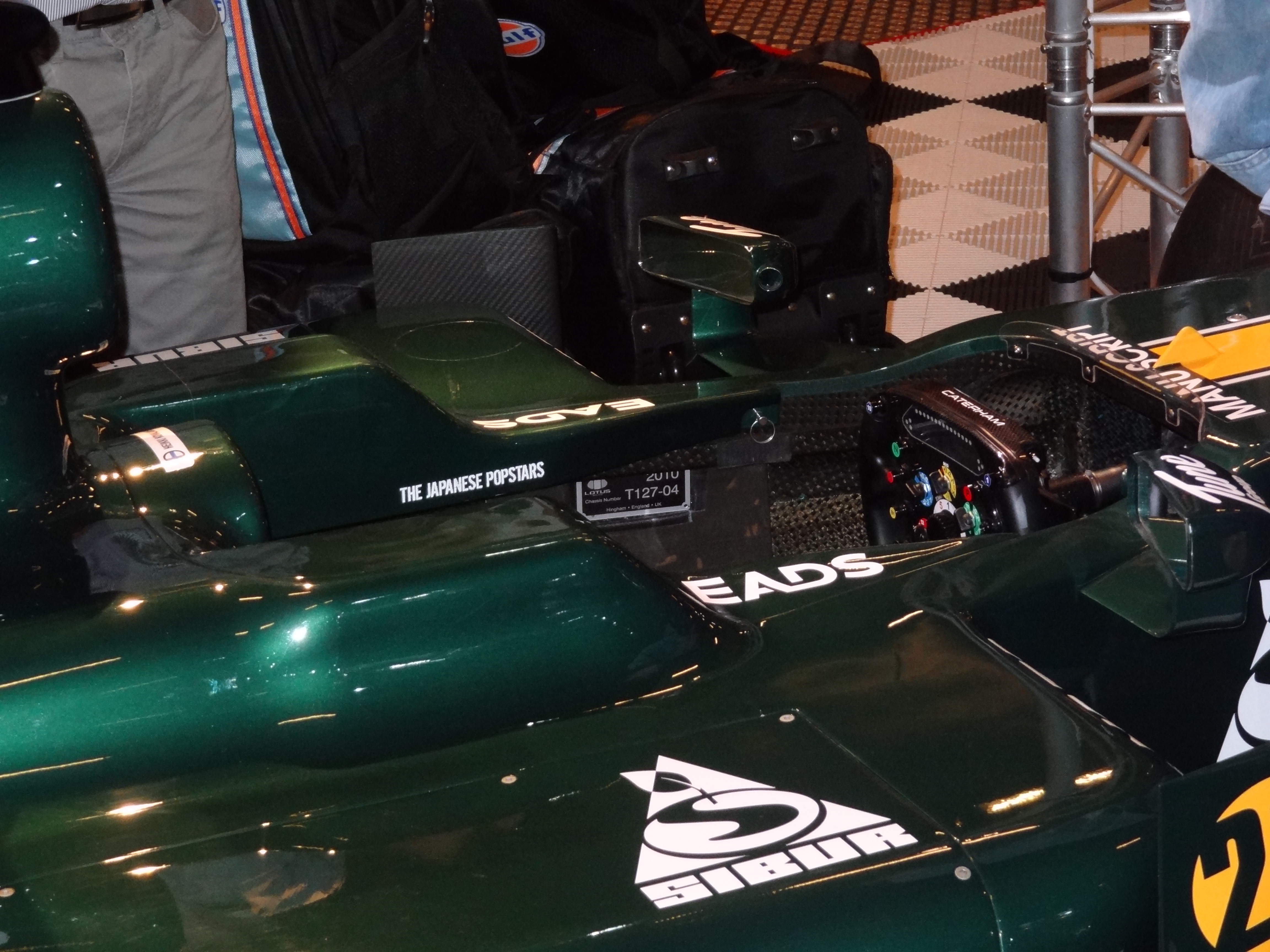 Cockpit Caterham Lotus F1 T127-04